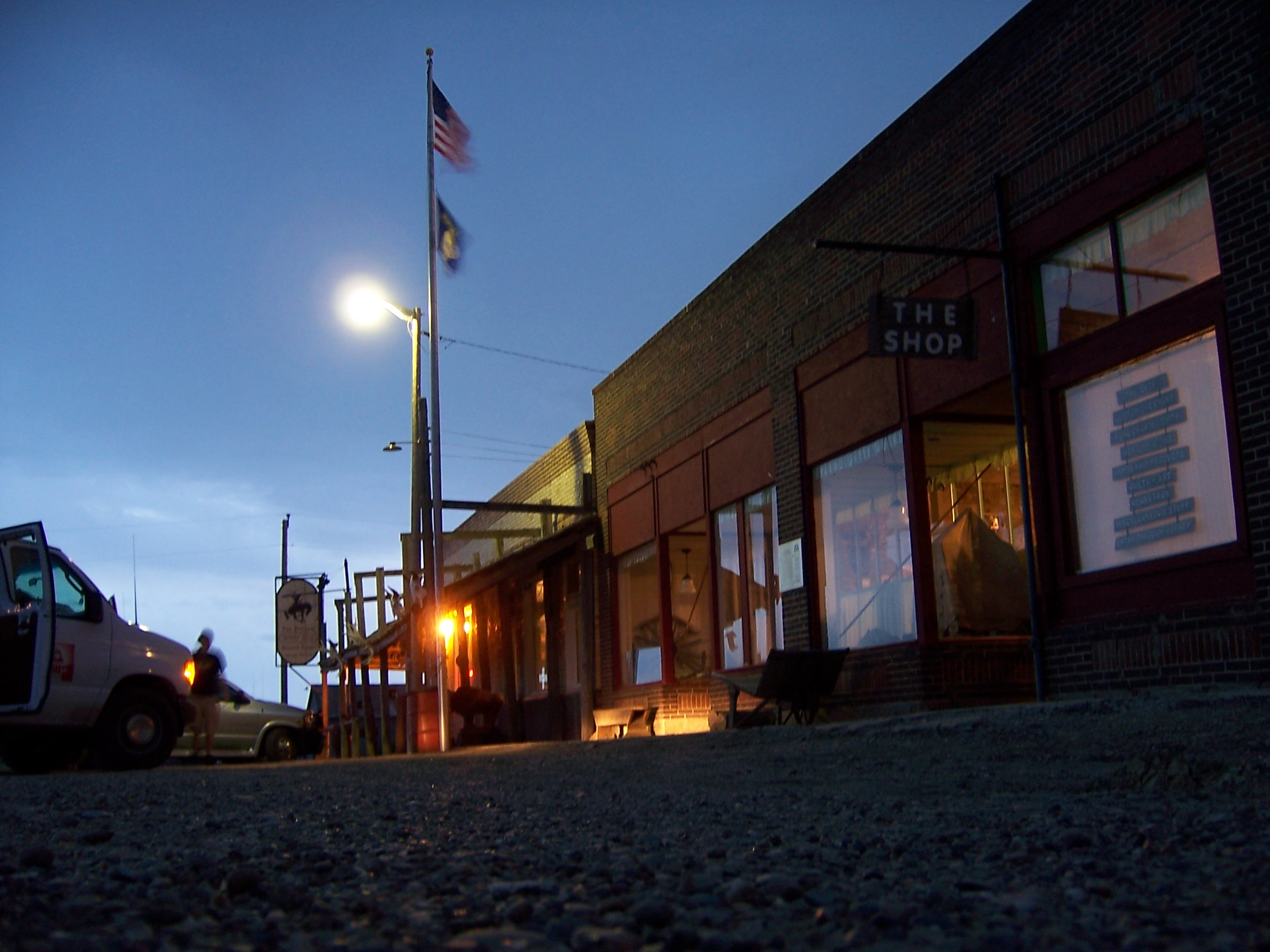 Dusk view of the Jersey Lilly in Ingomar, Montana taken during the 2007 Cal U of PA Storm Chase class after attempting to intercept a thunderstorm in the vicinity.